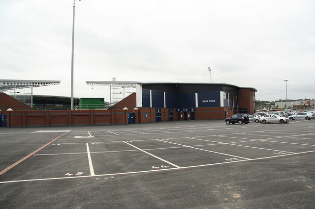 b2net Stadium